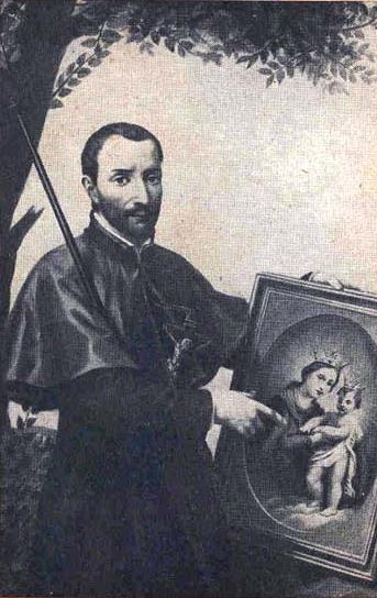 Cropped from a holy card of Blessed Antonio Baldinucci, SJ.